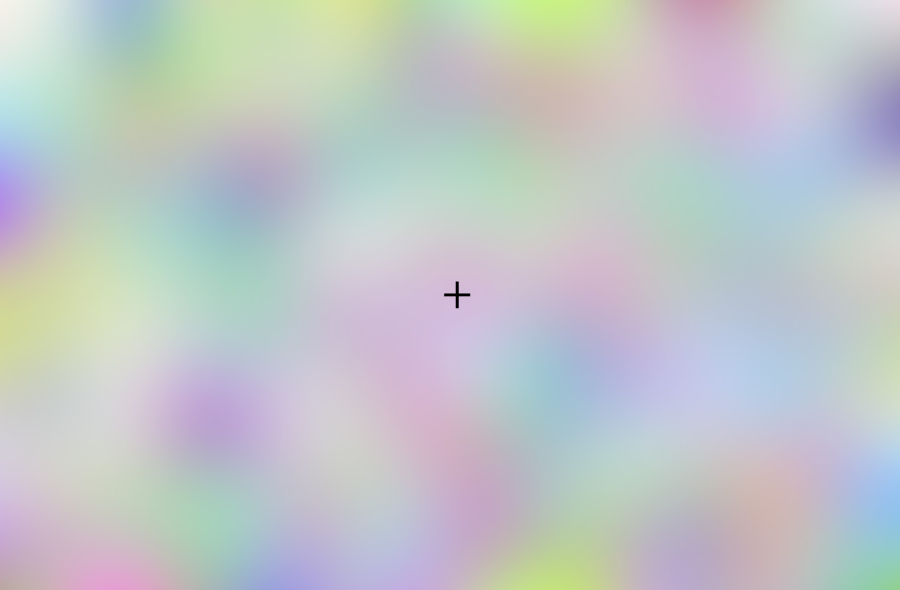 Troxler effect with Gaussian colour noise. When viewing the picture in full resolution from a close distance the colour differences will disappear after a few seconds.